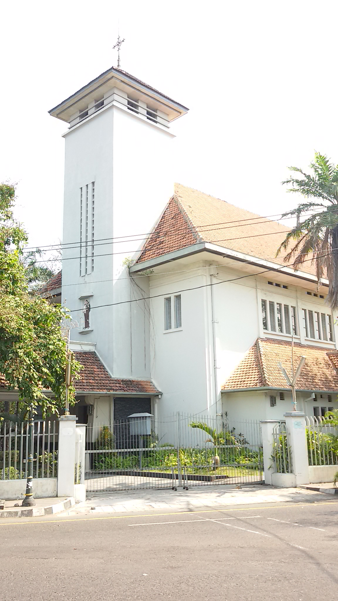 The front side of St Antonius Church, Yogyakarta